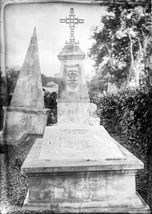 The grave of the murdered civil servant ('controleur') Max Föhringer and his wife